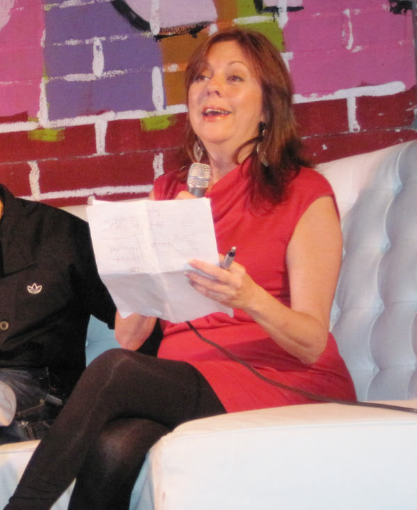 Mayra Montero serves as the hostess for the 2009 Claridad Gala Dinner at the La Concha Hotel in San Juan, Puerto Rico